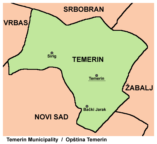 Map of Temerin municipality. Mapa opštine Temerin.